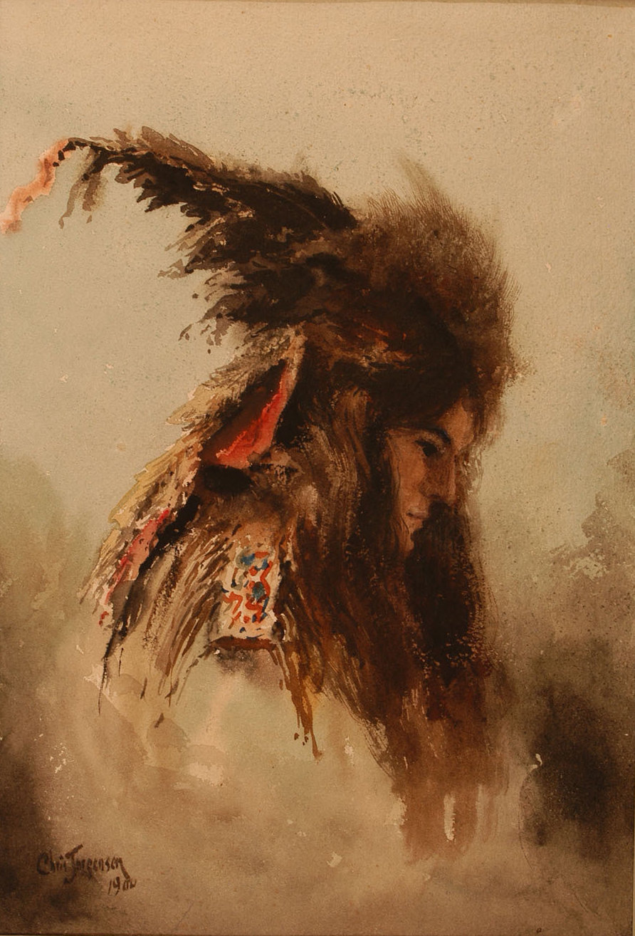 WATERCOLOR BY CHRIS JORGENSEN 14.25 X 9.5" INDIAN HEAD